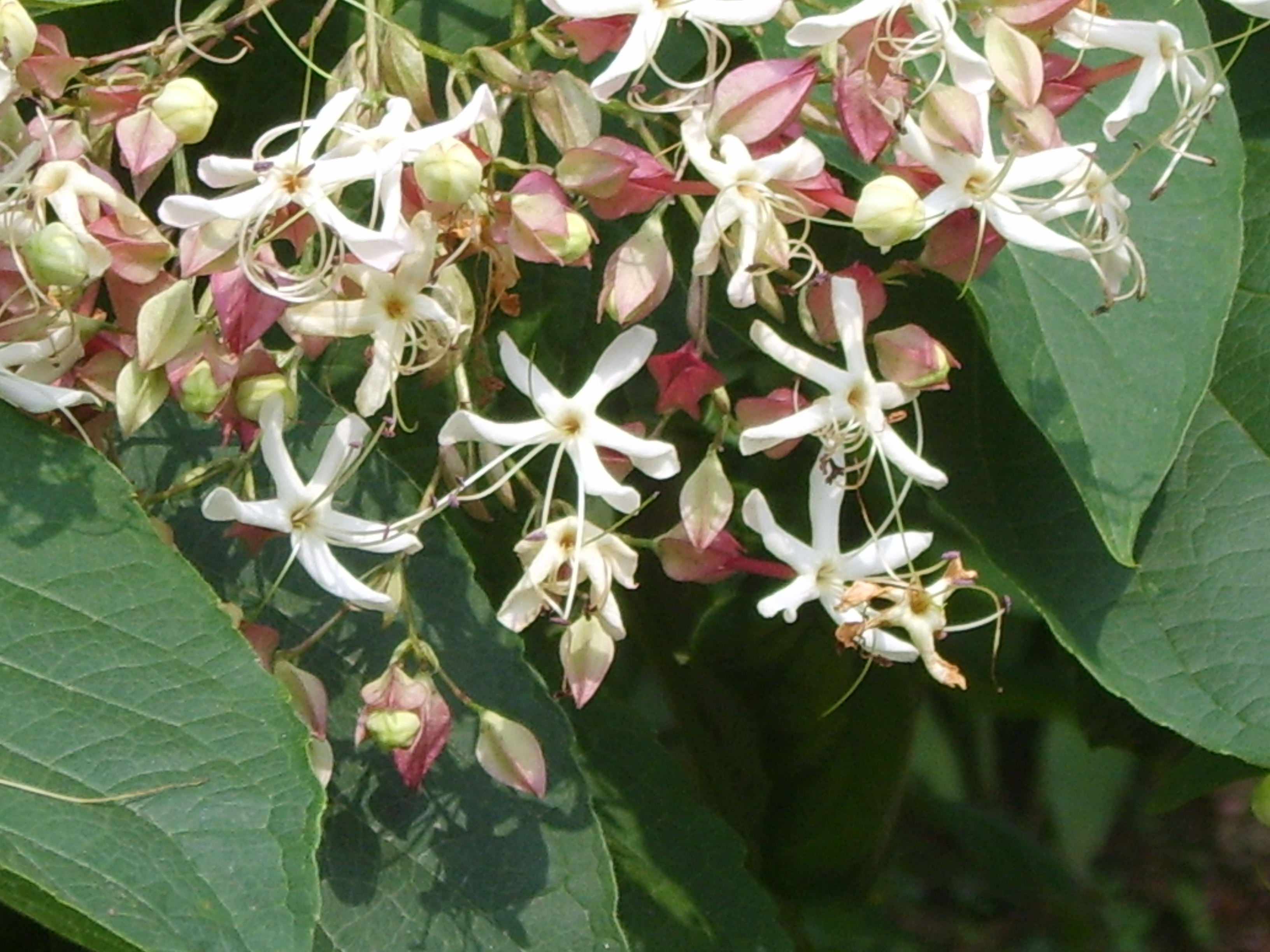 Clerodendrum trichotomum in Gyeongbokgung palace, Korea